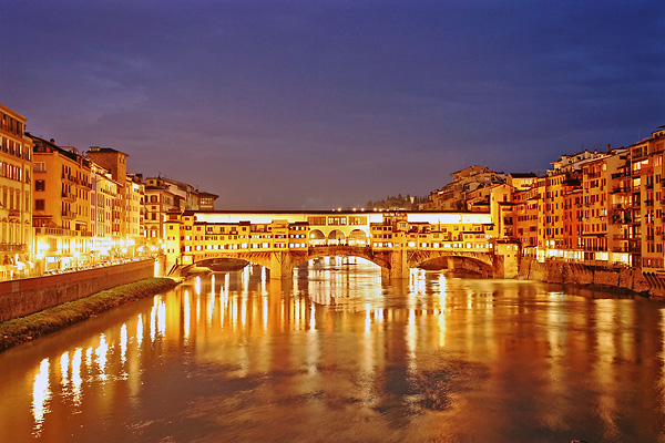 Photograph of Ponte Vecchio at night. Florence, Italy